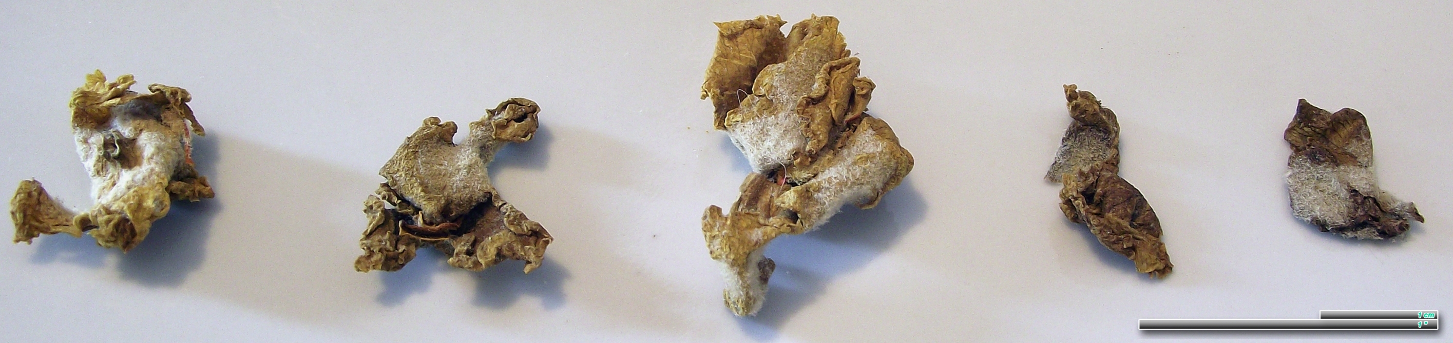 dried Verbascum thapsus (Great or Common Mullein); Flower